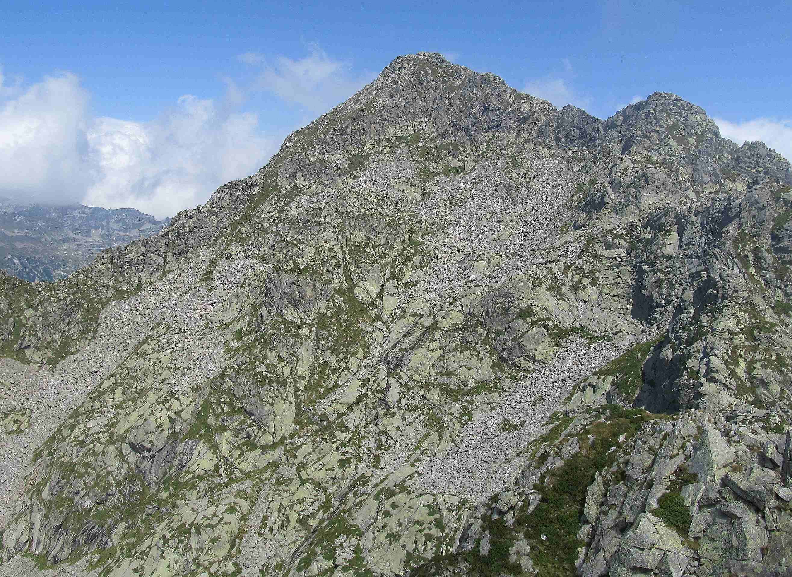 Monte Mars (Alpi Biellesi, Italy) seen from punta Sella